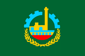 Flag of Qalyubiya Governorate Image made by J. Ollé